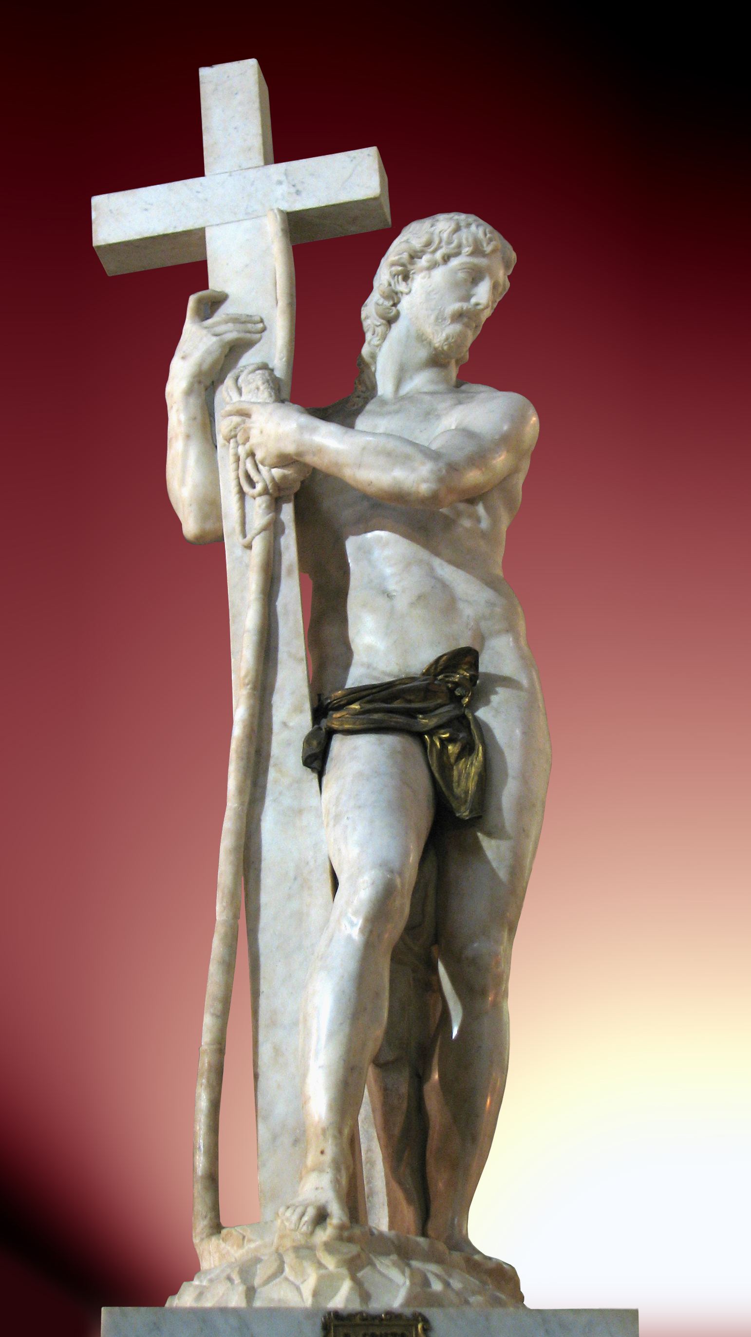 Christ the Redeemer, by Michelangelo. Santa Maria sopra Minerva, Rome